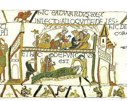 Bayeux Tapestry. Scene 27-28